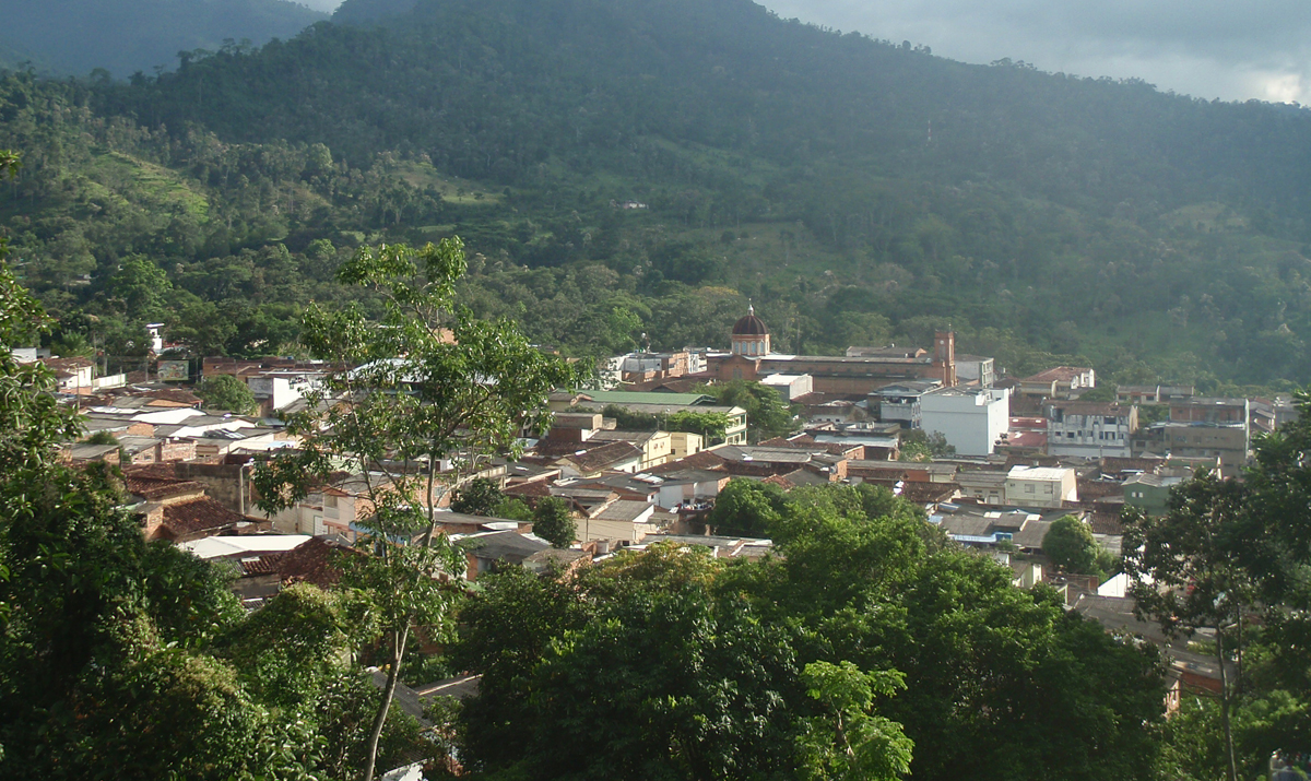 Vista de san vicente de chucuri